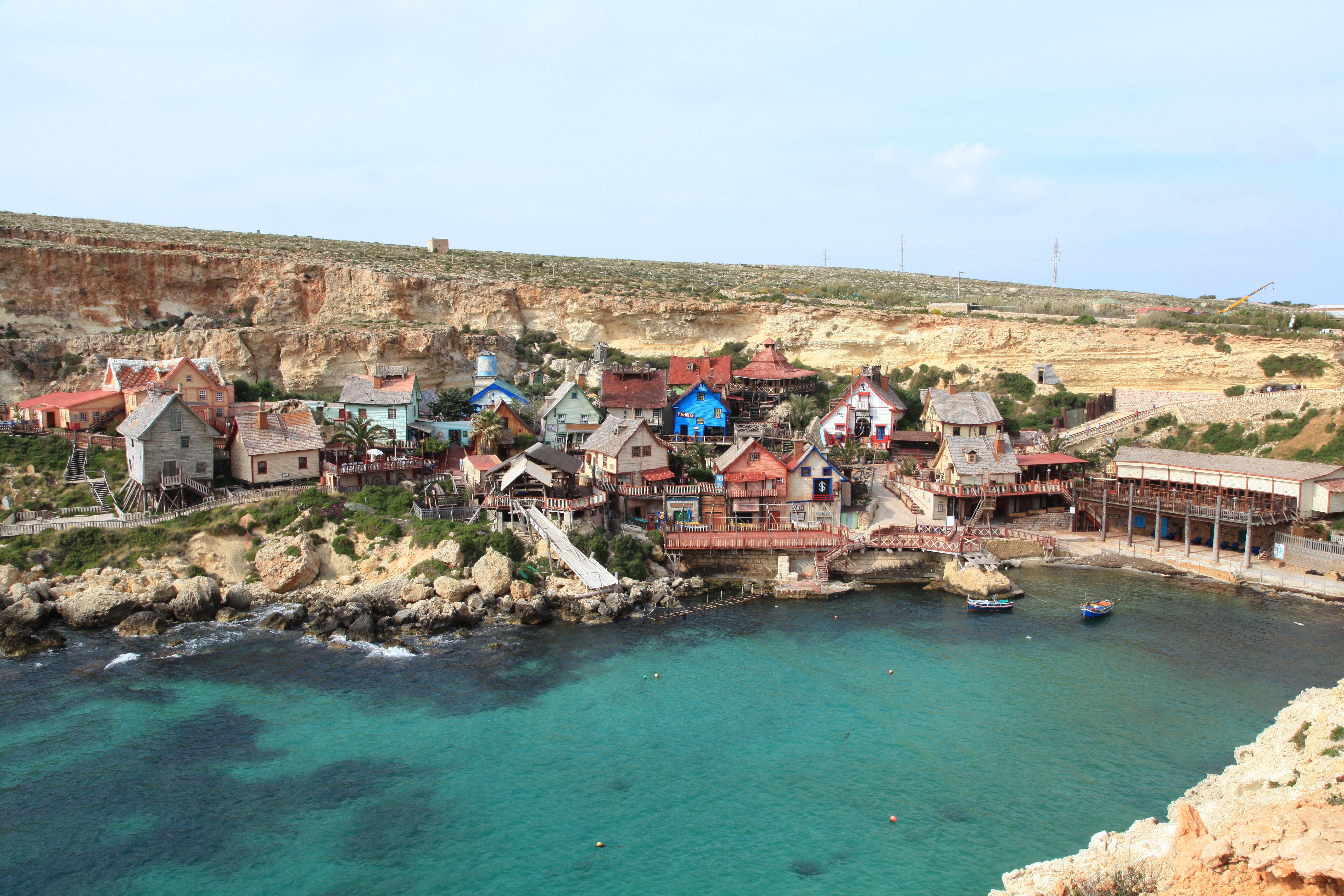 Anchor Bay with Popeye Village at Triq tal-Prajjet in Mellieħa, Malta